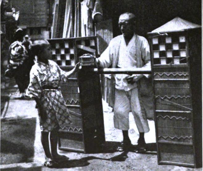 Cricket seller in Japan, c1900